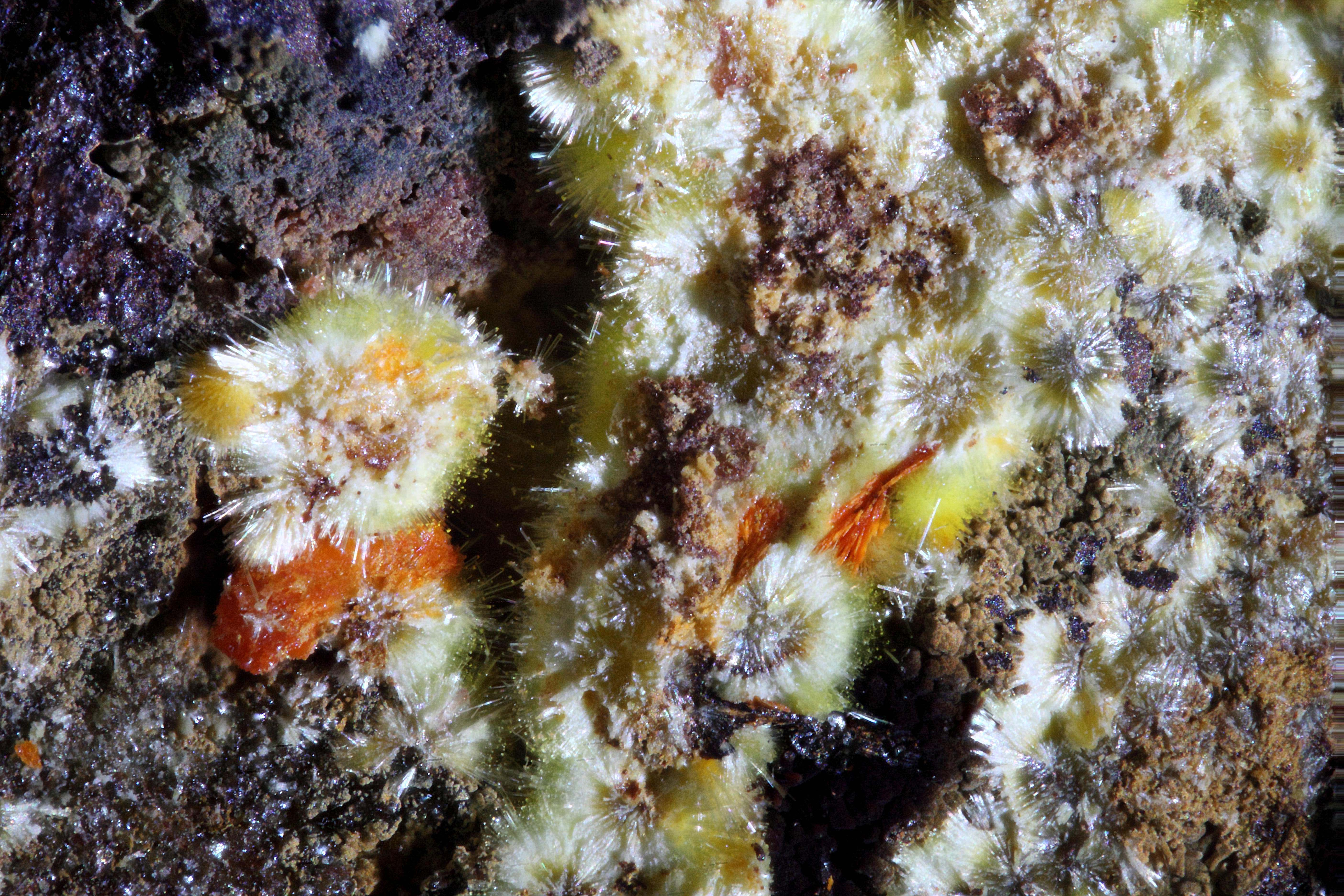 Orange crystals vandendriesscheite from Krunkelbach mine, Menzenschwand, Black Forest, Germany